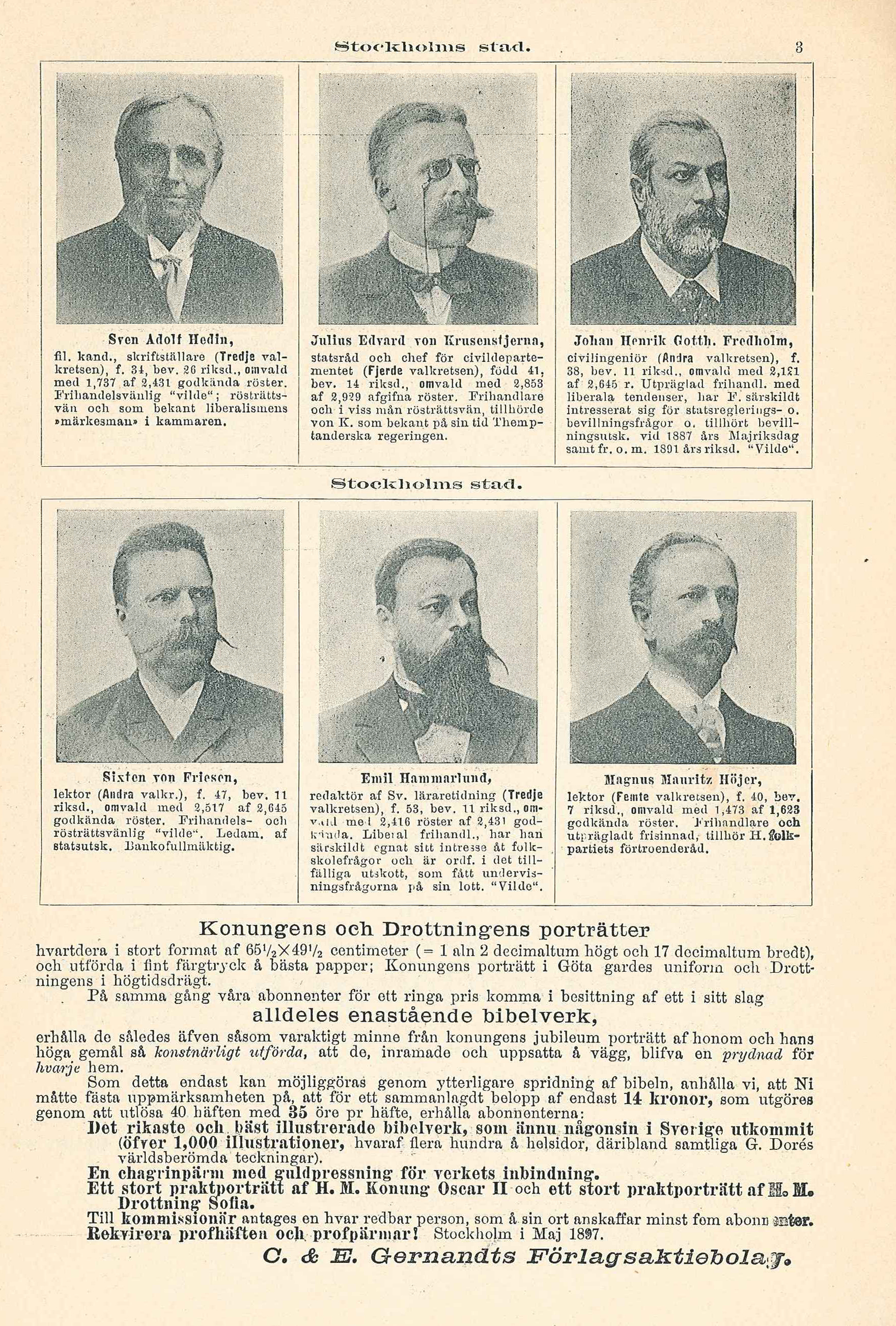 Page 3 of an album featuring portraits of all the members of the second chamber of the Swedish parliament (Sveriges riksdag) elected in 1897. This page featuring parts of the members representing the city of Stockholm.